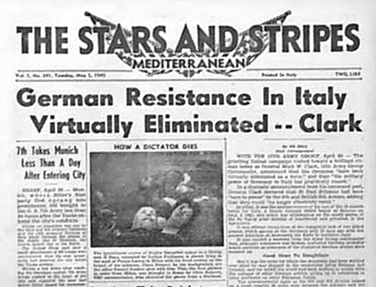 Edition of the newspaper reporting Mussolini killing